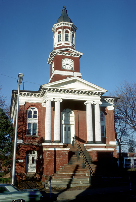 Culpeper County Courthouse, Culpeper (Culpeper County, Virginia) This image or file is a work of a United States Department of Agriculture employee, taken or made as part of that person's official duties. As a work of the U.S. federal government, the image is in the public domain. Object location38° 28′ 22″ N, 77° 59′ 44″ W